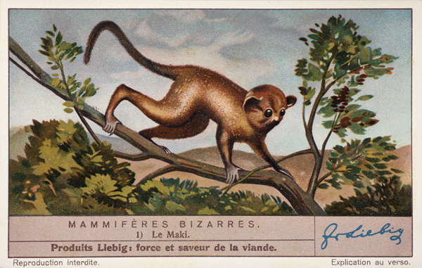 Liebig Chromos. Trade card.Series 1359, Strange Mammals, Lemuridae (Maki). 1937. Private collection Paul MR Maeyaert. 7,1 x 11cm. ; Ref: PM_110579_Liebig_Chromos; Cultural heritage; Cultural heritage|Techniques|Postcard trade card. Text on reverse: MAMMIFÈRES BIZARRES; 1) Le Maki.; Le Maki est un animal appartenant à un groupe auquel on a donné le nom de lémuriens. Leur patrie est l'île de Madagascar. Mais il y a aussi des lémuriens aux Indes et aux îles de la Sonde. Ce fait a donné lieu à l'hypothèse que dans les temps géologiques la grande île africaine était reliée à l'Asie et formait un continent que les savants ont appelé la Lémurie.; Les quatre membres du maki sont terminés par de véritables mains avec pouces opposables et des ongles plats comme ceux des singes et des humains, sauf au second orteil qui a une véritable griffe. Cette conformation des extrémités leur permet de mener une vie arboricole. Ils sont aussi lestes que les singes et frugivores comme eux. Alors que les vrais singes ont la face glabre et le museau aplati, les makis ont la face poilue et le museau pointu. Beaucoup de ces animaux sont nocturnes et ont alors de très grands yeux.